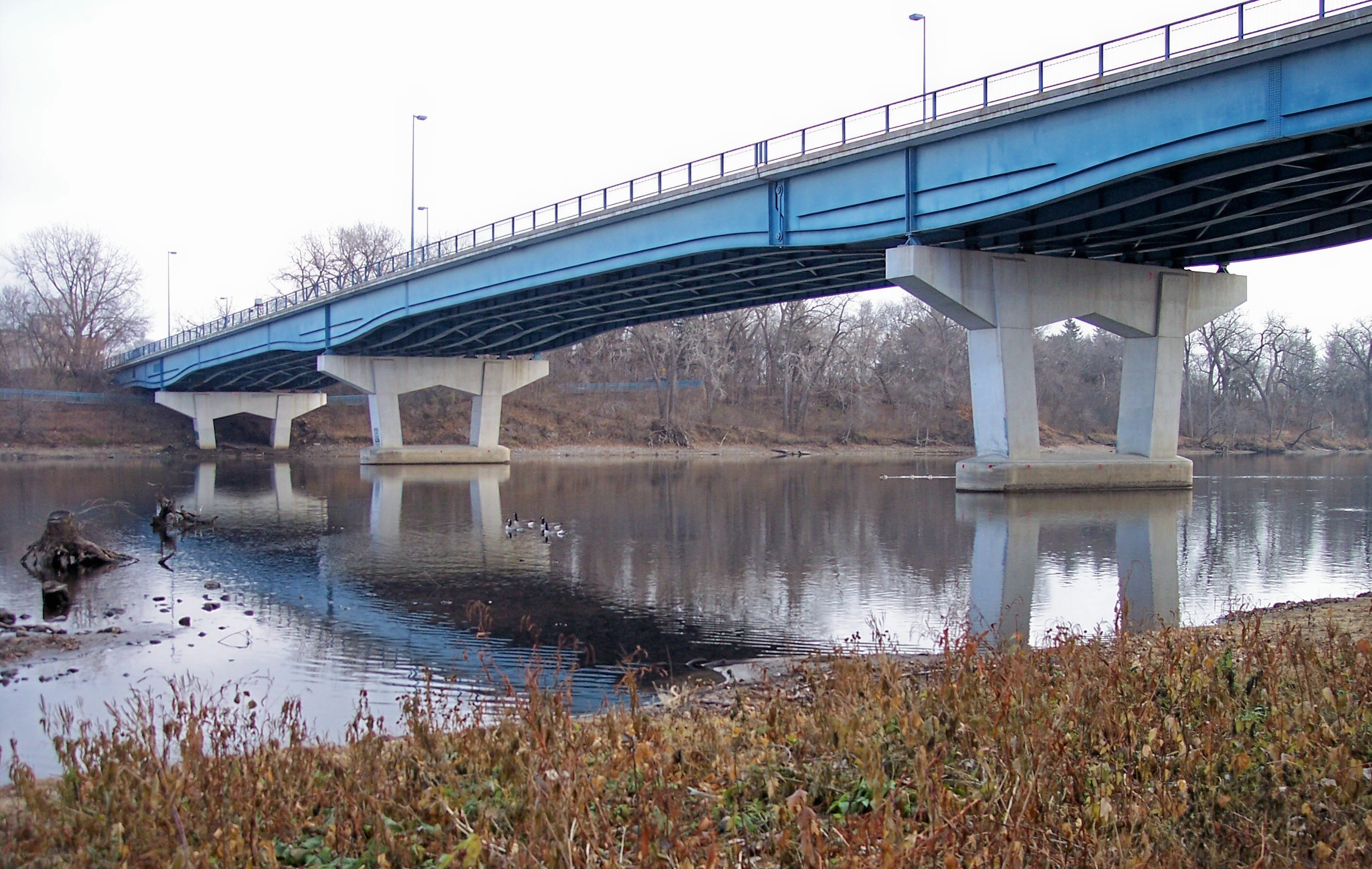 The Camden Bridge over the Mississippi River in Minneapolis, Minnesota, viewed from the west bank of the river